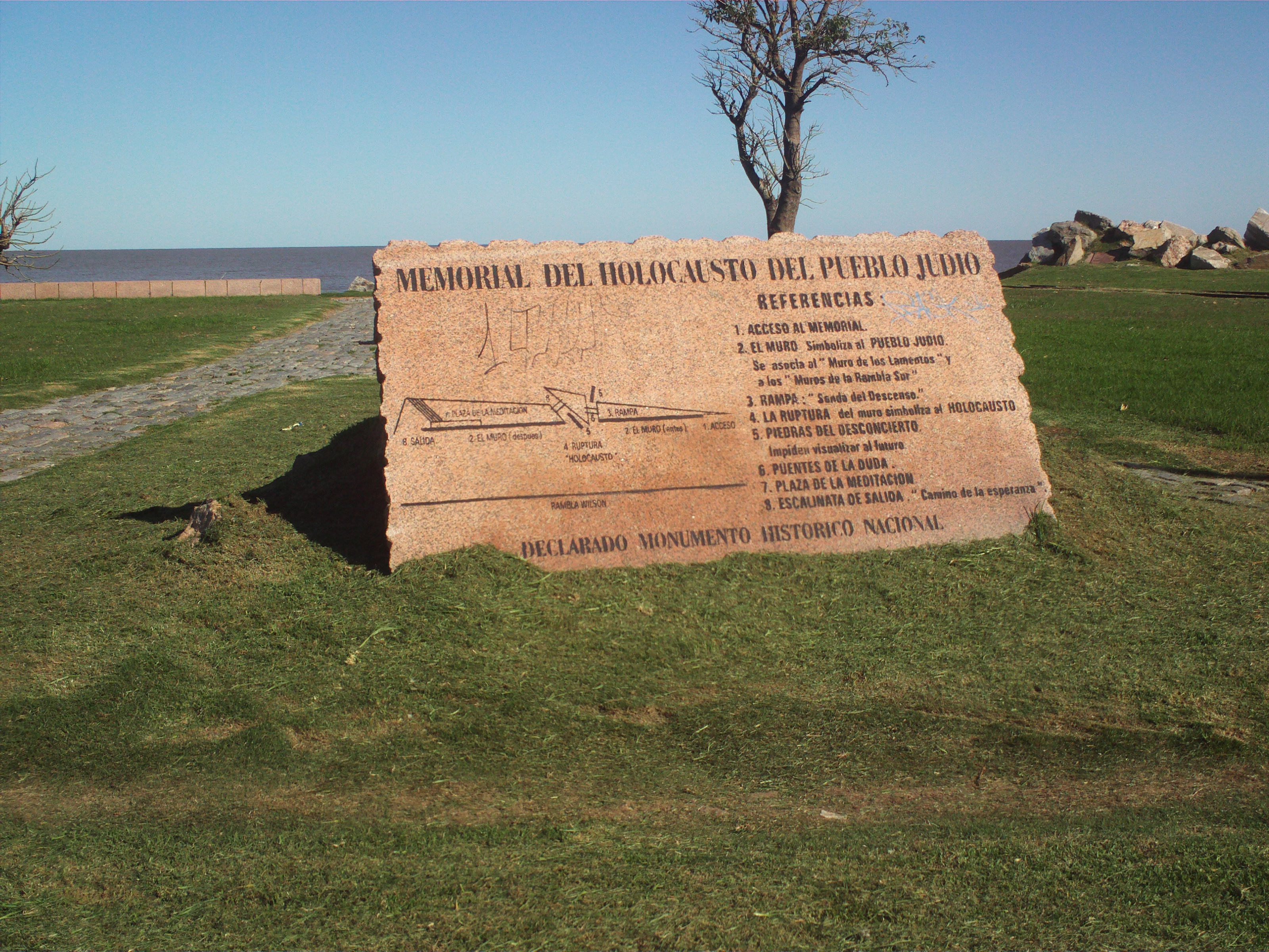 The Holocaust memorial in Punta Carretas, Montevideo